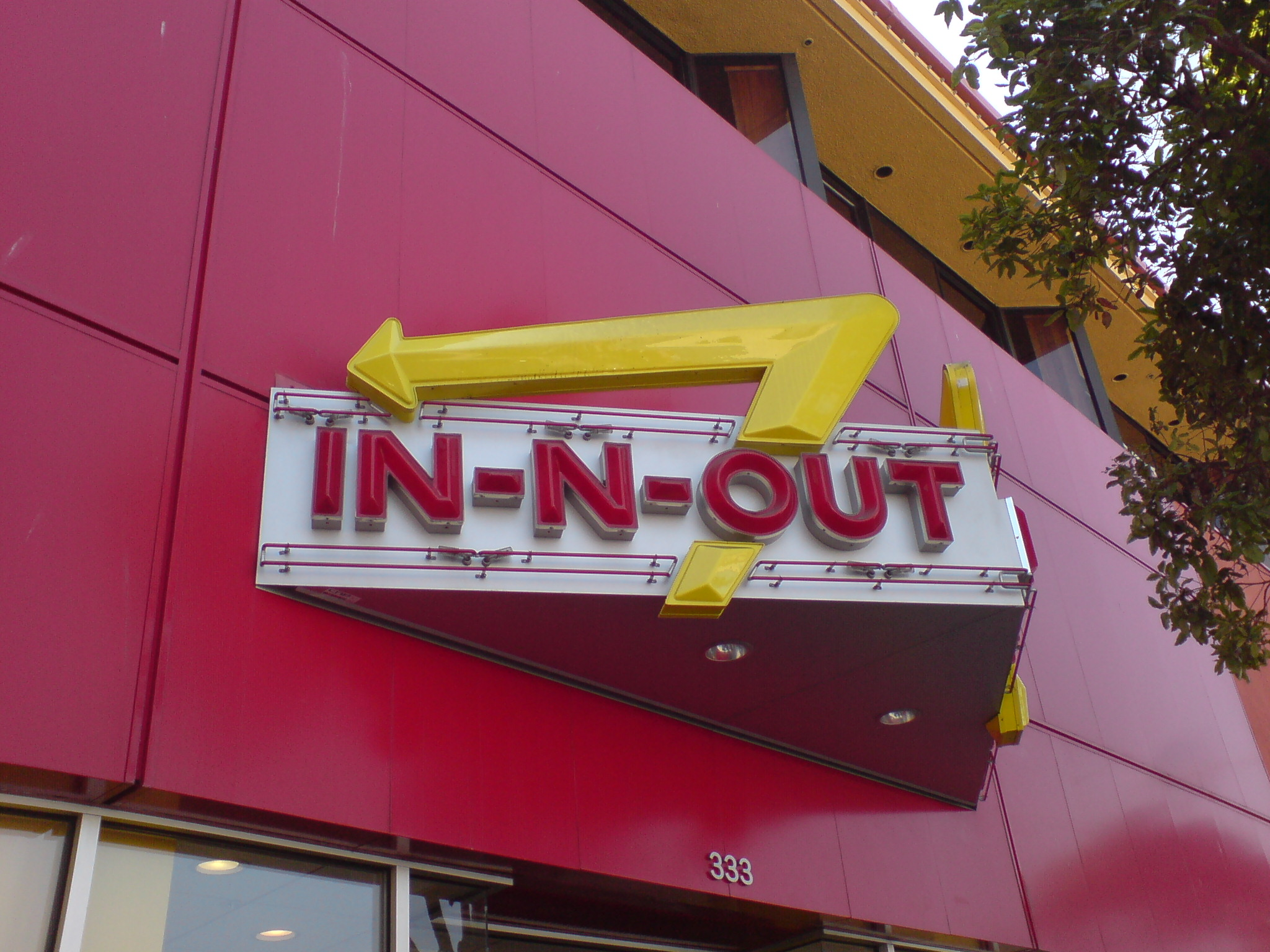 The In-N-Out Burger sign at Fisherman's Wharf in San Francisco